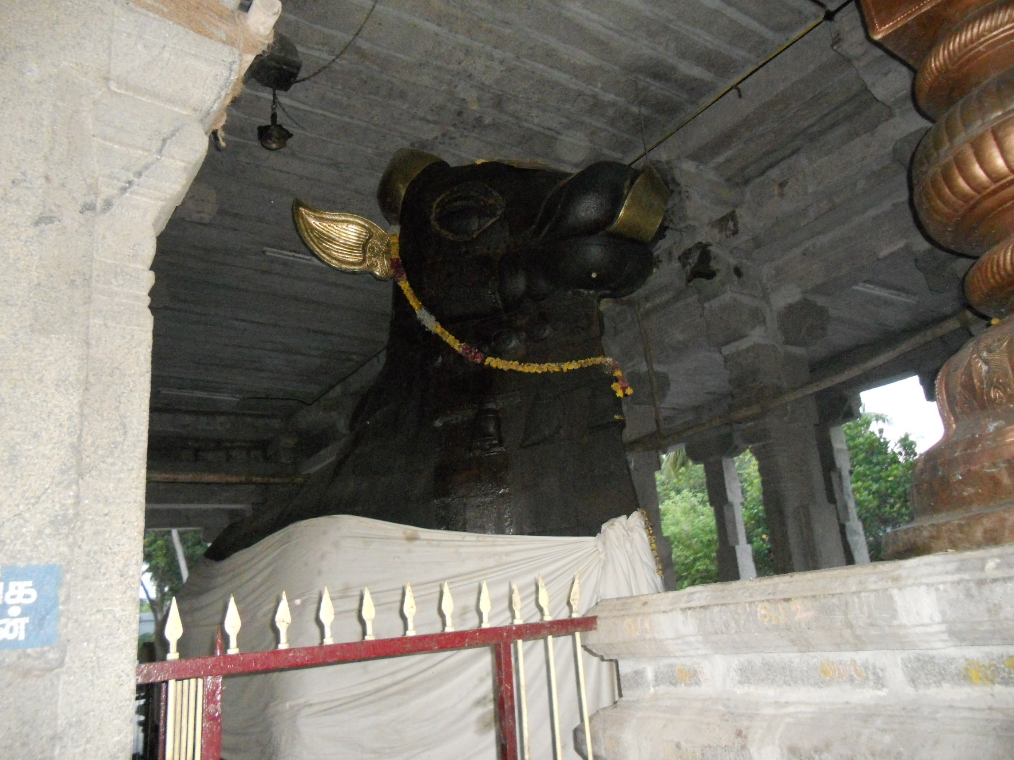 Thiruvaduthurai temple